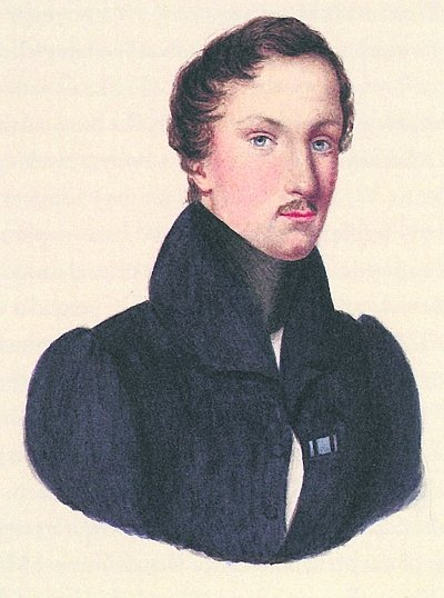 Miniature portrait from life of Jan Matuszynski, c. 1840, by an unknown artist